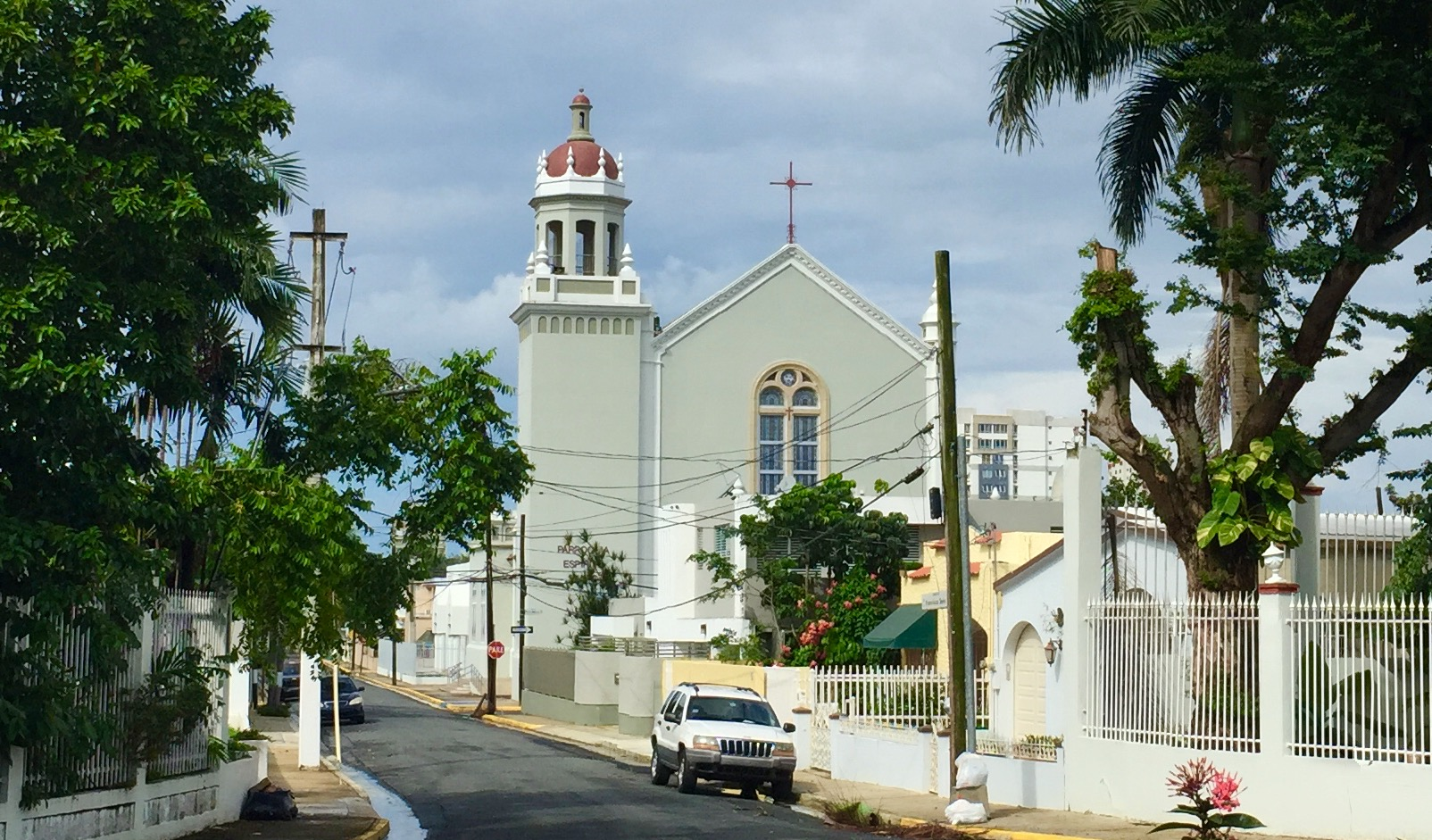 Floral Park Historic Zone